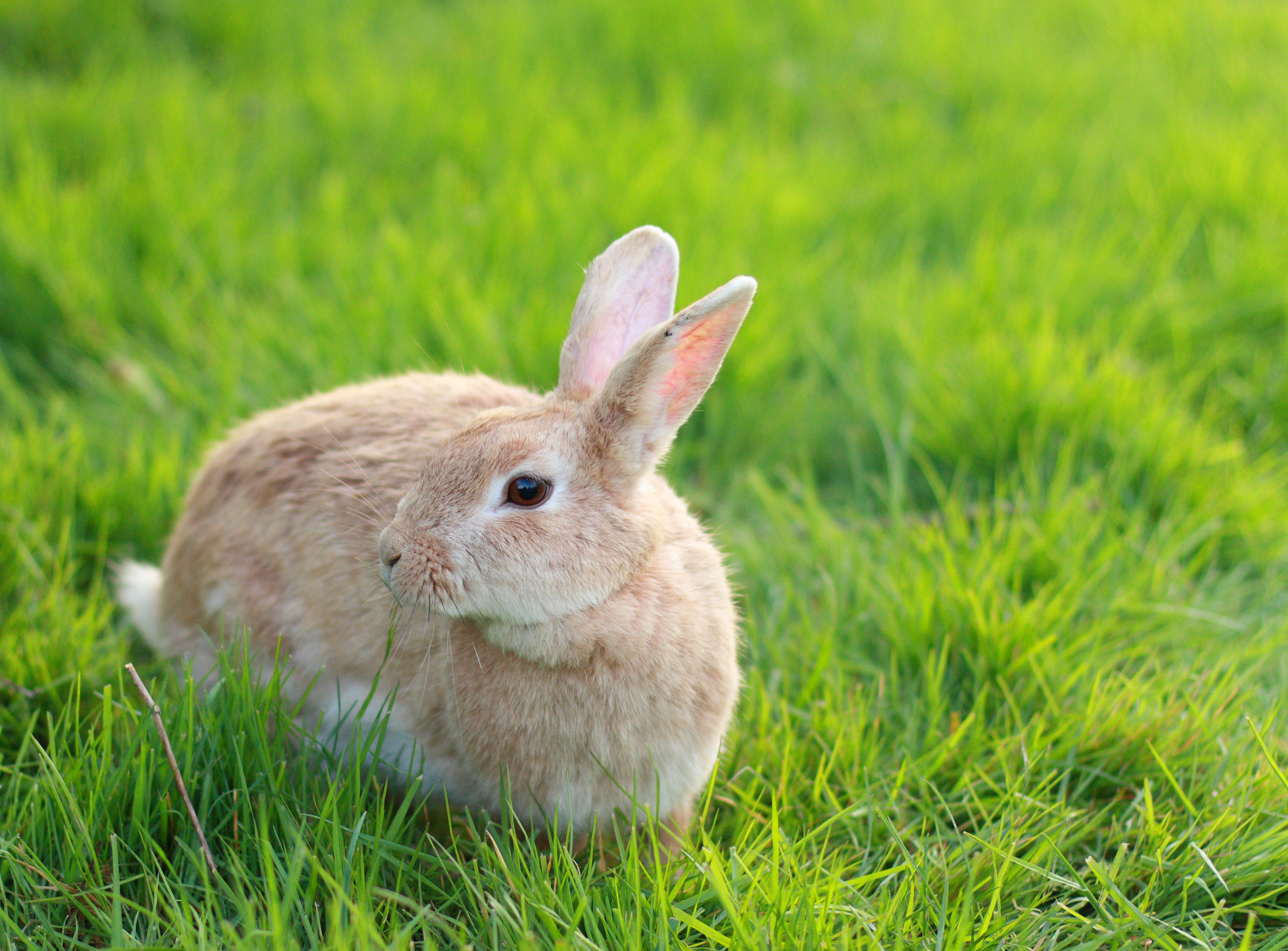 The young bunny is honey colored in garden